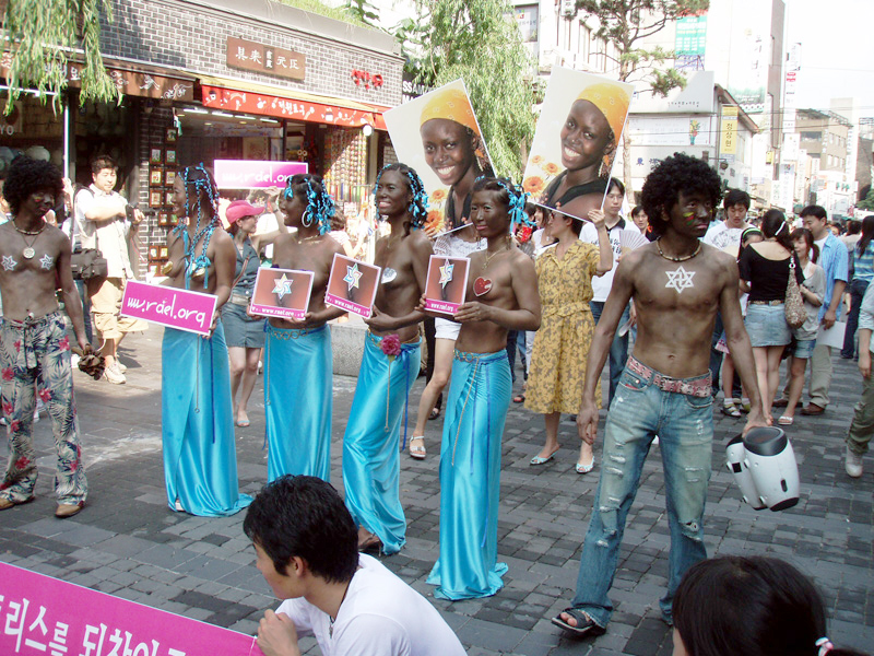 Image Specific: 30 July 2006 Insa-dong Seoul Korea "Adopt a Clitoris!"